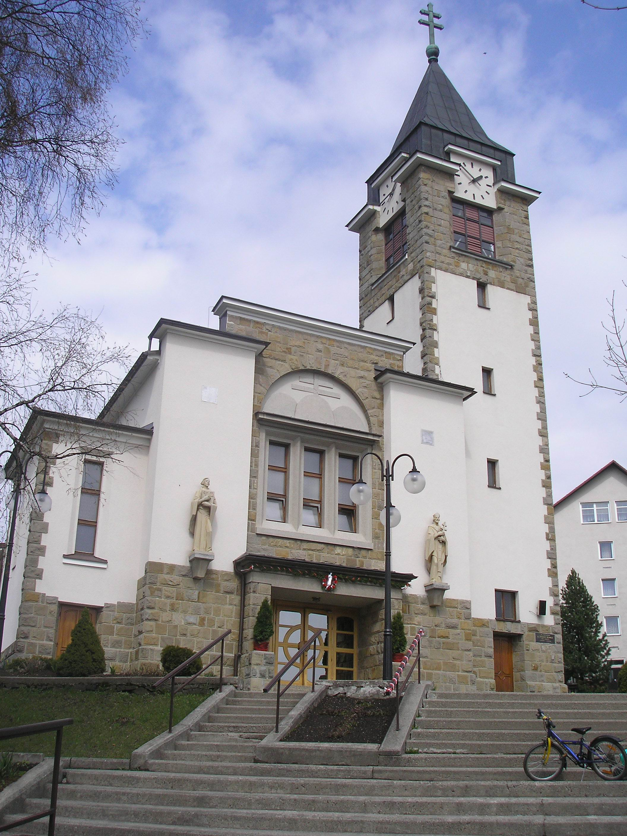 Church: catolic, builded on the place of old wooden church from 1942-48 by project of M.Harminec. From original old church there is picture of birth of Virgin Maria, sculpture of St.Vendelin, folk wood carving from 19 century,stone pillars of :The Holy Trinty, St.Jan Nepomucky,Suffering Christ from 1825 with sculpture Pieta from 1800.